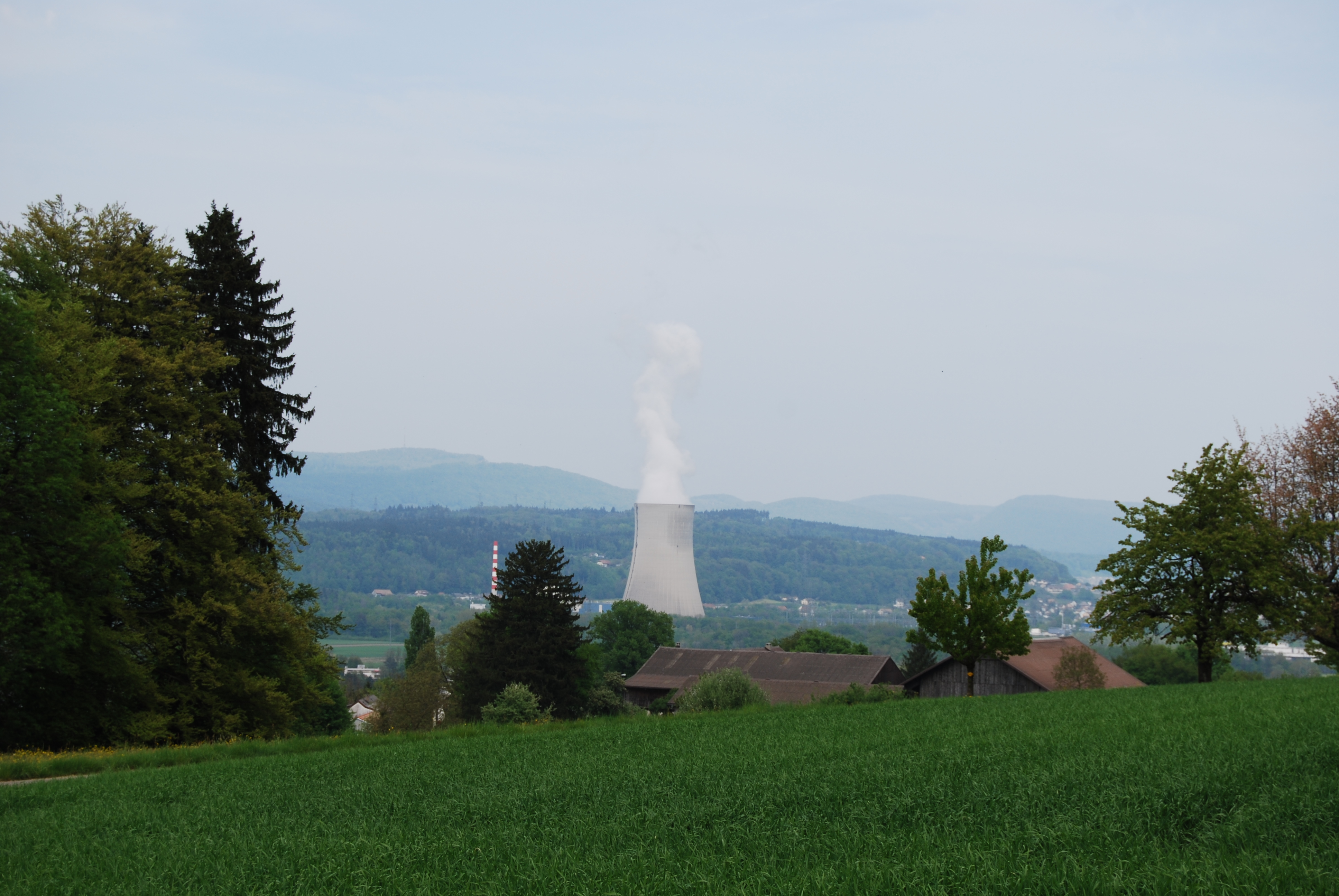 View from above of Dulliken (south of Engelberg) to the Gösgen nuclear power plant, canton of Solothurn, Switzerland